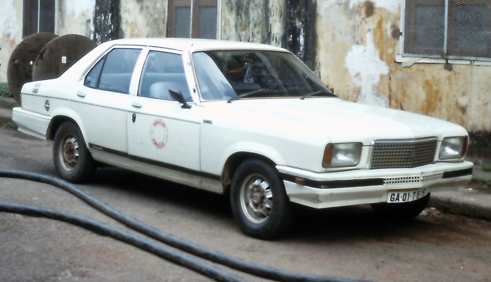 Hindustan Contessa Diesel in Goa, India, October 1994. Vauxhall VX Series body with Isuzu engine.